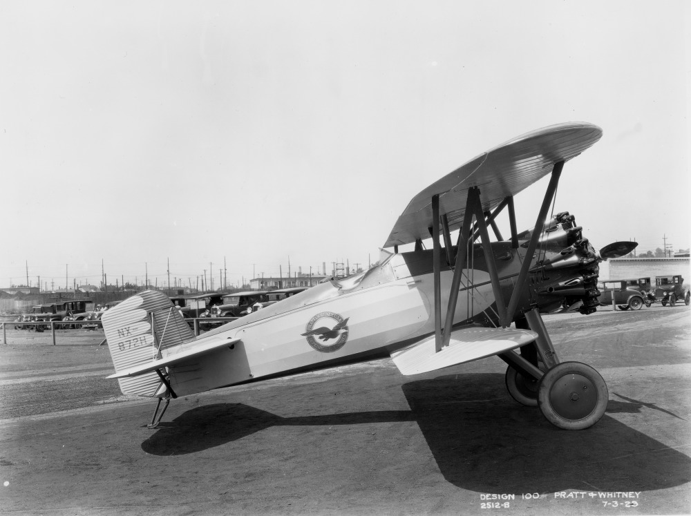 PictionID:41899456 - Title:Ray Wagner Collection Image - Catalog:16_000768 Boeing 100 NX872H 3Jul29 mfr 2512-B - Filename:16_000768 Boeing 100 NX872H 3Jul29 mfr 2512-B.tif - - Ray Wagner was Archivist at the San Diego Air and Space Museum for several years and is an author of several books on aviation --- ---Please Tag these images so that the information can be permanently stored with the digital file.---Repository: San Diego Air and Space Museum